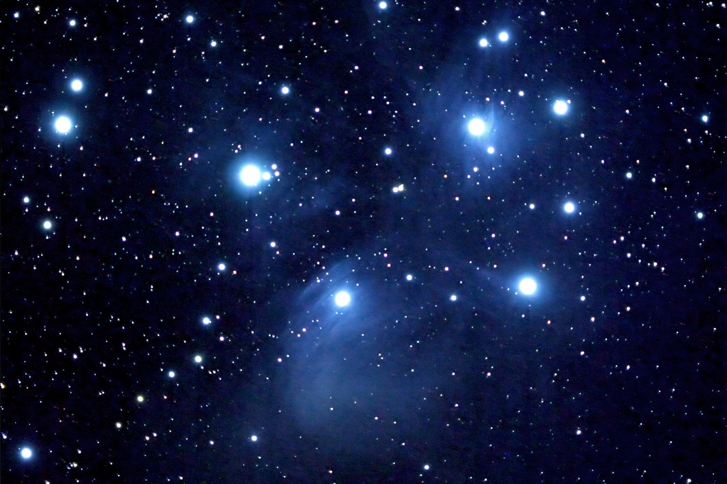 M45 The Pleiades Star Cluster and Nebulosity. NJNS Star Party. Orion 80ED F/7.5 piggybacked on a CGE1100 Unguided Canon 300D unmodified Baader IR/UV filter 7 180second 1600iso images Combined and processed in Photoshop Noise reduction in Neat Image